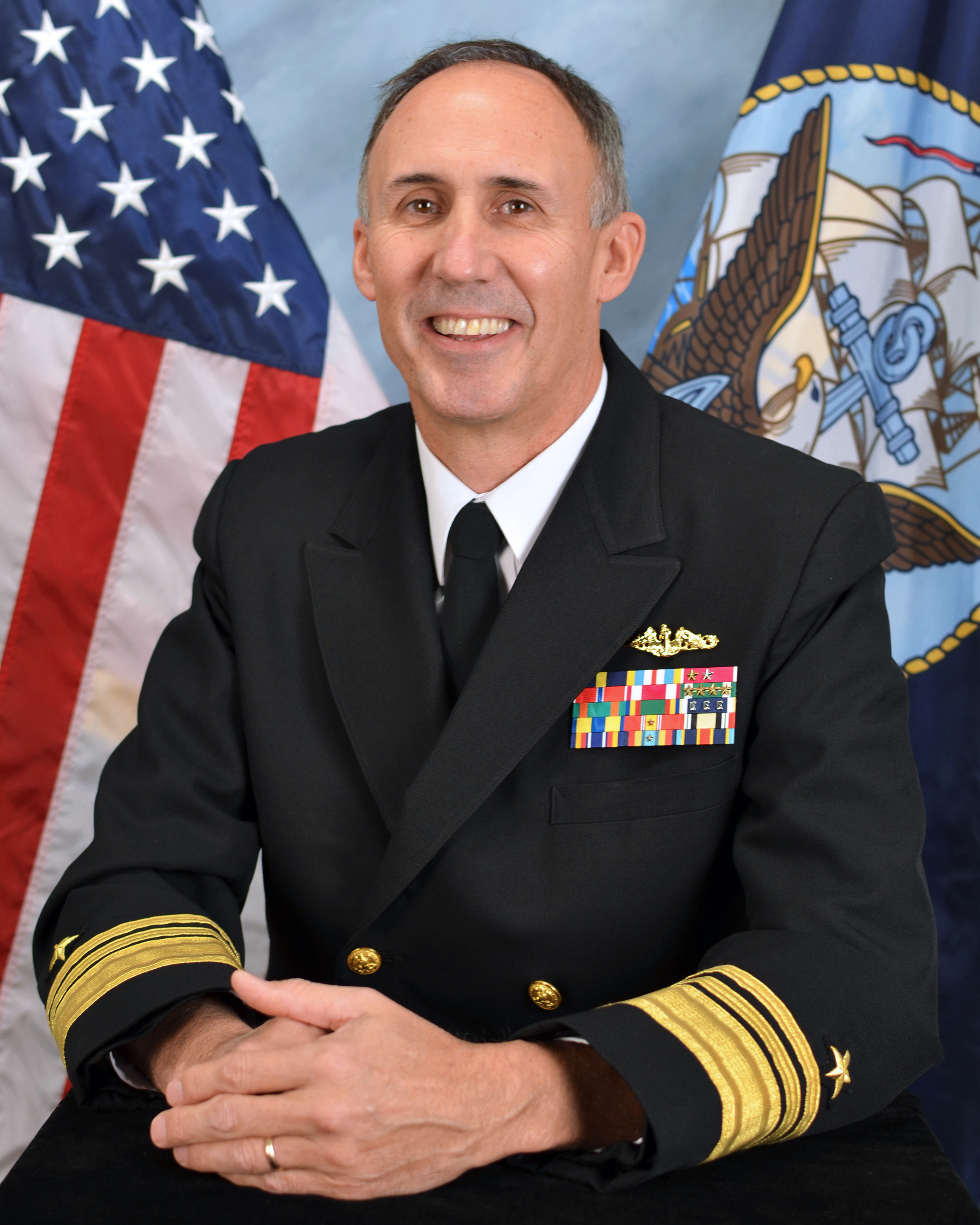 Vice Admiral Scott R. Van Buskirk, USN56th Chief of Naval Personnel (CNP)Deputy Chief of Naval Operations (Manpower, Personnel, Training & Education)